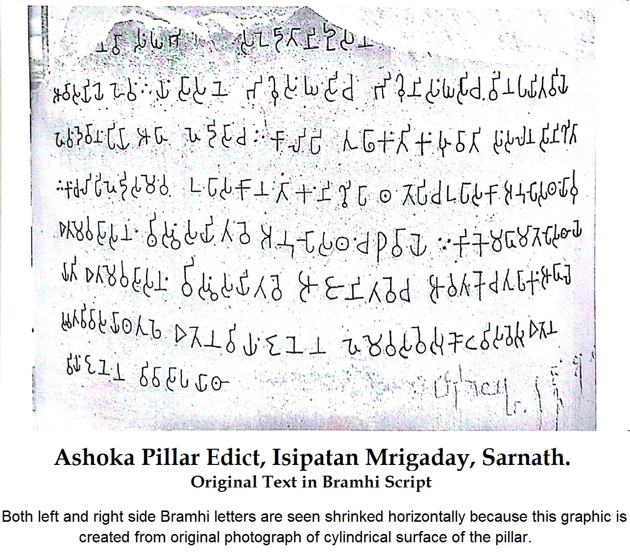 This is the Graphic Image of Ashoka's Pillar Edict Edict at Sarnath, near Varanasi, Uttar Pradesh, India. The Script of the Text is Bramhi and the Language is Prakrit.